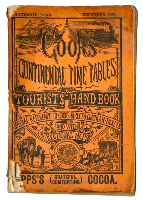 Cover of the December 1888 edition of Cook's Continental Time Tables & Tourist's Handbook.